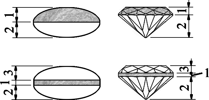 structure of doublet and triplet gemstones, 1. gemstone, 2. base layer, top layer